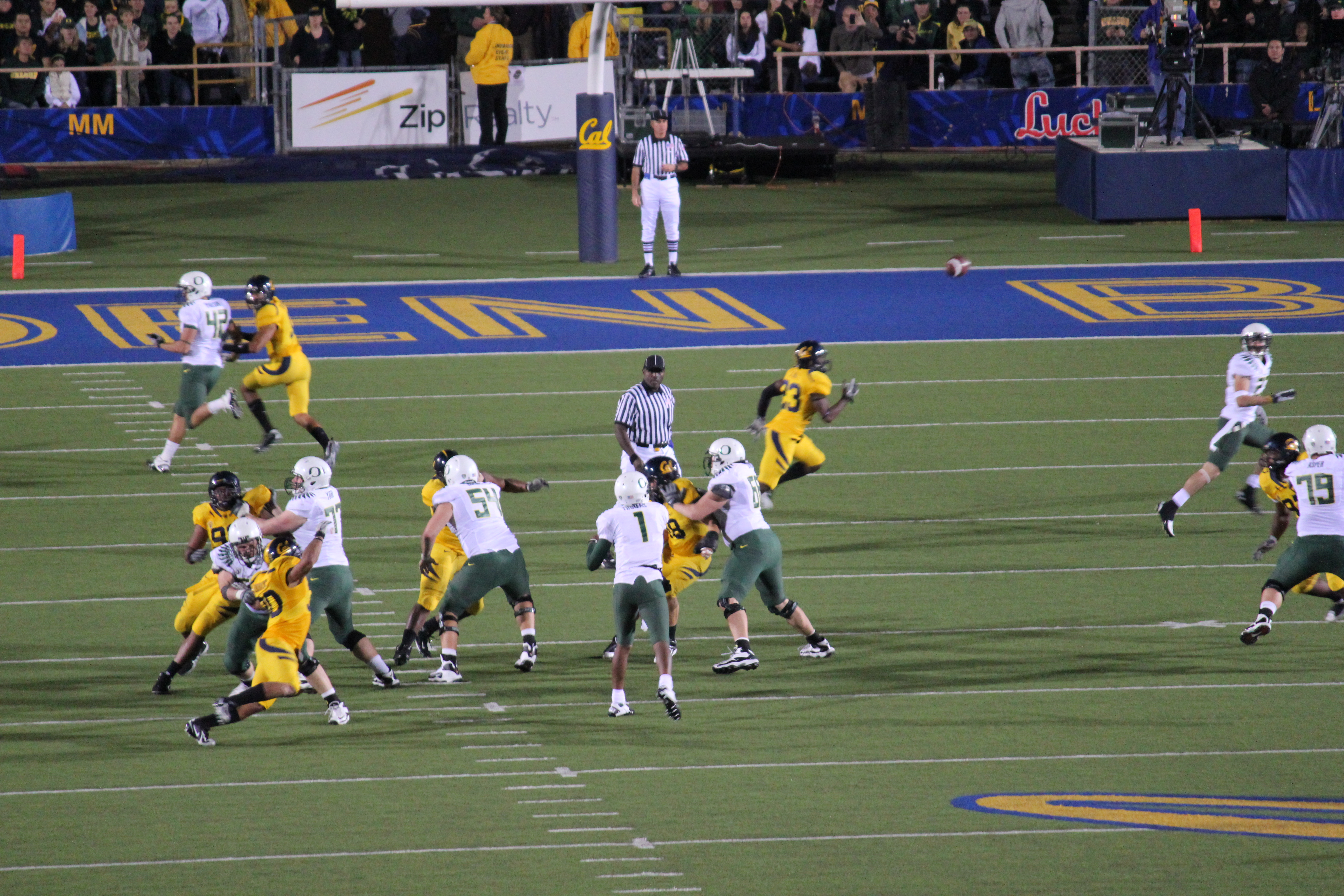 Oregon quarterback Darron Thomas throws a touchdown pass to wide receiver Jeff Maehl during an away game at California. The Ducks won 15-13.